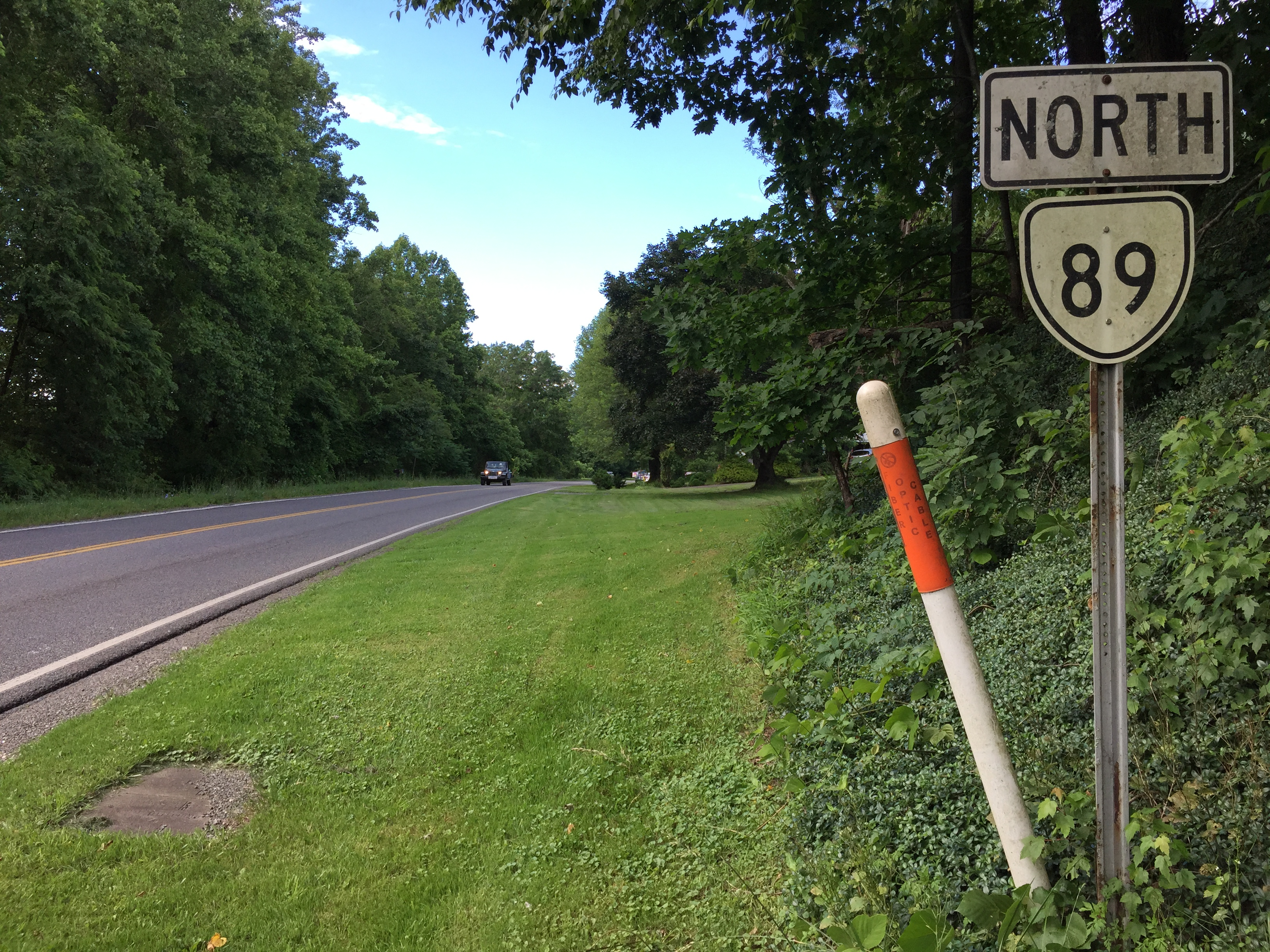 View north along Virginia State Route 89 (Main Street) just north of Camp Zion Road (Virginia State Secondary Route 865) in Galax, Virginia